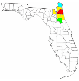 Map of Jacksonville-Palatka, FL-GA Combined Statistical Area (CSA): Red: Duval County, Florida (City of Jacksonville, Florida for the most part) Yellow: surrounding counties included in Jacksonville, FL MSA Light Green: Putnam County, Florida (Palatka, FL µSA) Light Blue: Camden County, Georgia (St. Mary's, GA µSA)